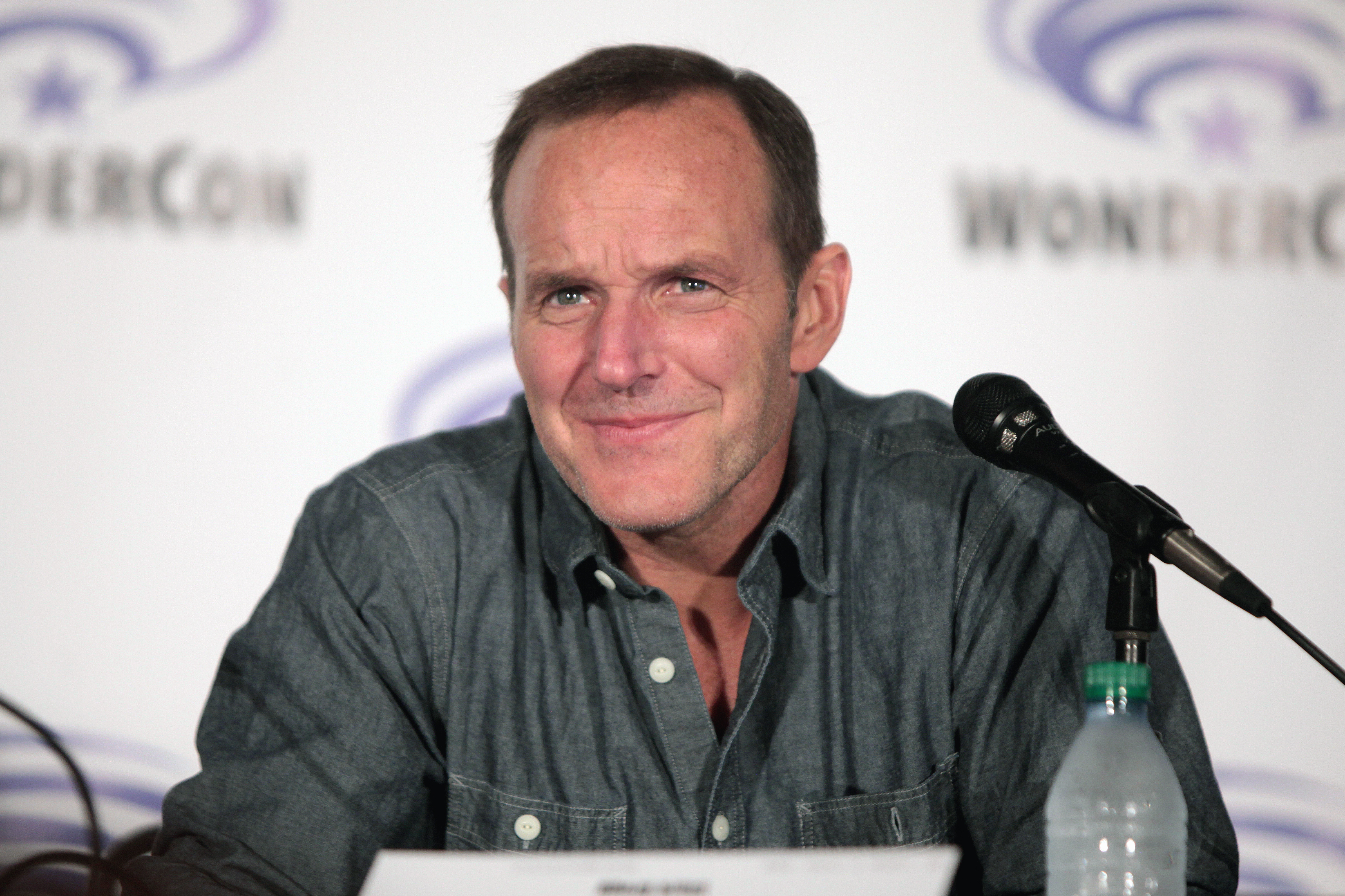 Clark Gregg speaking at the 2016 WonderCon, for "Marvel's Agents of S.H.I.E.L.D.", at the Los Angeles Convention Center in Los Angeles, California.